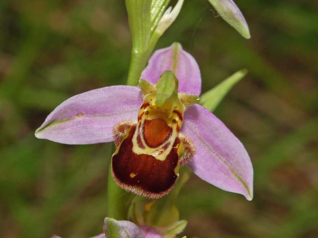 Ophrys apifera - Genova, Italy